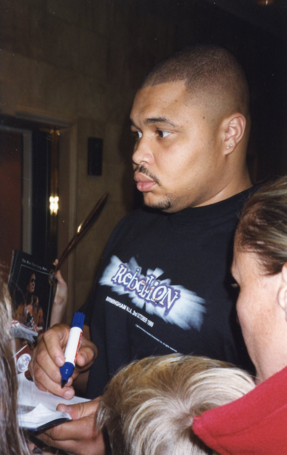 D'Lo Brown in Birmingham